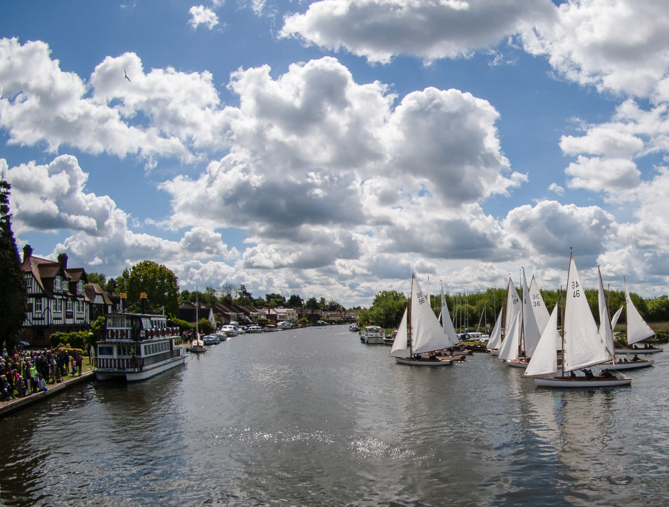 Crowds line the River Bure for the start of the 55th Three Rivers Race at Horning, Norfolk on 30 May 2015. Organised by Horning Sailing Club, this 24-hour event is one of the toughest inland yachting races in Europe. Picture shows the start for the Yare & Bure One Design 'White Boats'. Horning's historic Swan Inn can be seen on the left of the picture. Of the 108 boats entered in 2015, 86 finished in times of between 11 and 18 hours.